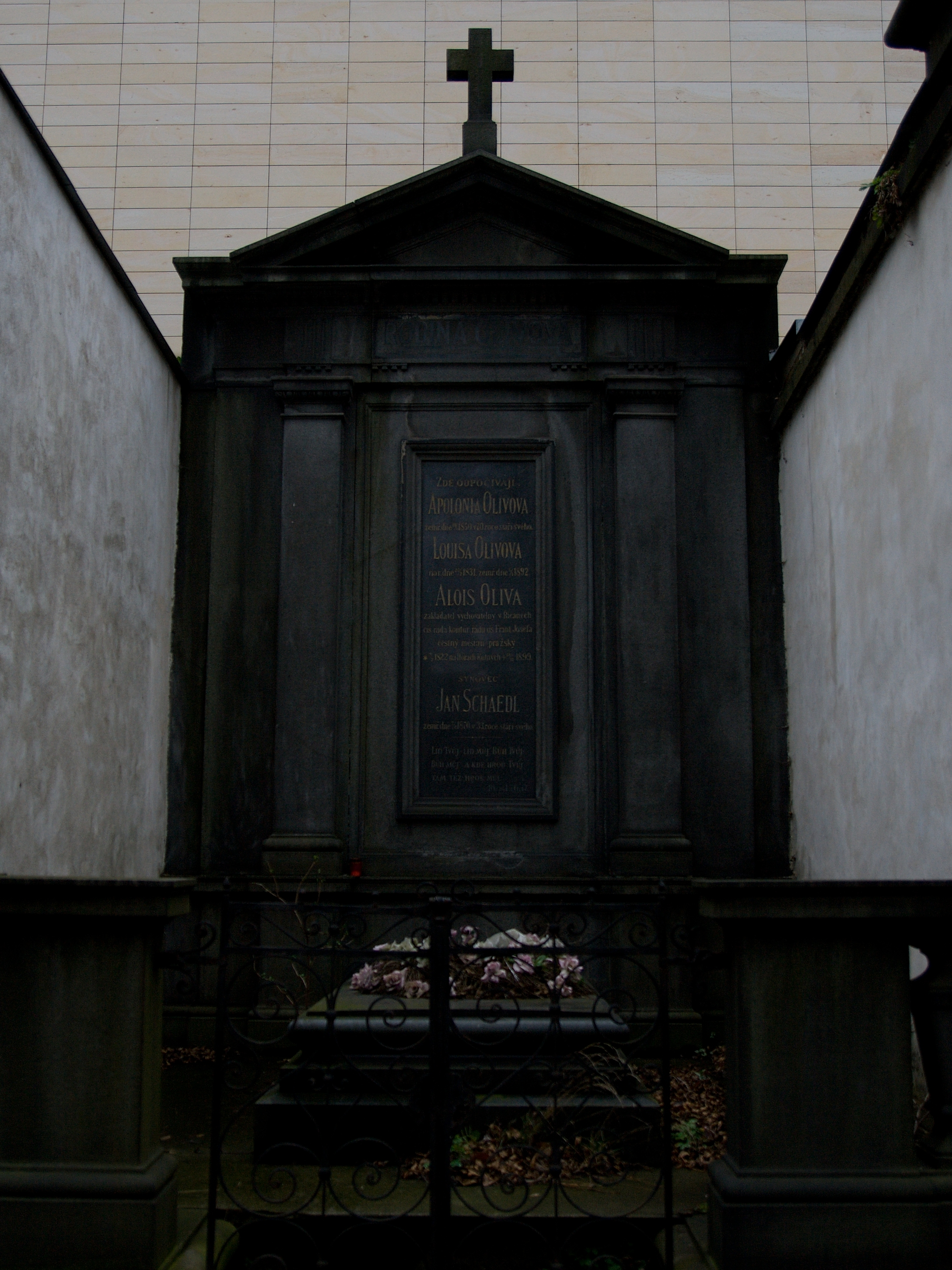 Olšanské hřbitovy Cemetery - Grave of Alois Oliva Family